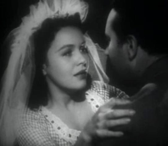 Mary Anderson (with Donald Douglas back) in Cheers for Miss Bishop (1941) - cropped screenshot